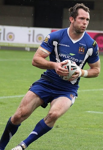 Pat Richards playing for the Wigan Warriors against Catalans Dragons in Montpellier